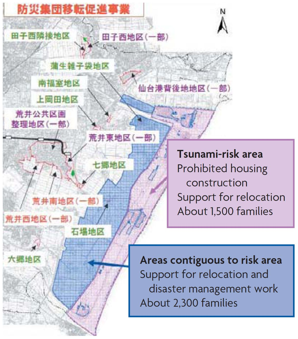 Source: Michio Ubaura, Akihiko Hokugo, Mikio Ishiwatari, International Recovery Platform: "Relocation in the Tohoku Area", In: Federica Ranghieri, Mikio Ishiwatari(editors): "Learning from Megadisasters - Lessons from the Great East Japan Earthquake", World Bank Publications, Washington, DC, 2014, Chapter 33, ISBN (paper): 978-1-4648-0153-2, ISBN (electronic): 978-1-4648-0154-9, pp. 307-315, here: p. 309, Map 33.1: "Relocation project in Sendai City" ("Source: Sendai City"), License: Creative Commons Attribution CC BY 3.0 IGO. Description from the mentioned source (p. 309): "Areas contiguous to at-risk areas. The city government is supporting some 2,300 families living adjacent to at- risk areas whose homes were flooded by the GEJE (map 33.1)."